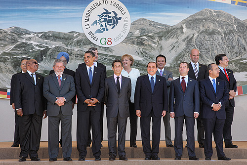 L’AQUILA, ITALY. Working session of the G8 heads of state, with participation by representatives from Brazil, Egypt, India, China, Mexico, and the Republic of South Africa.